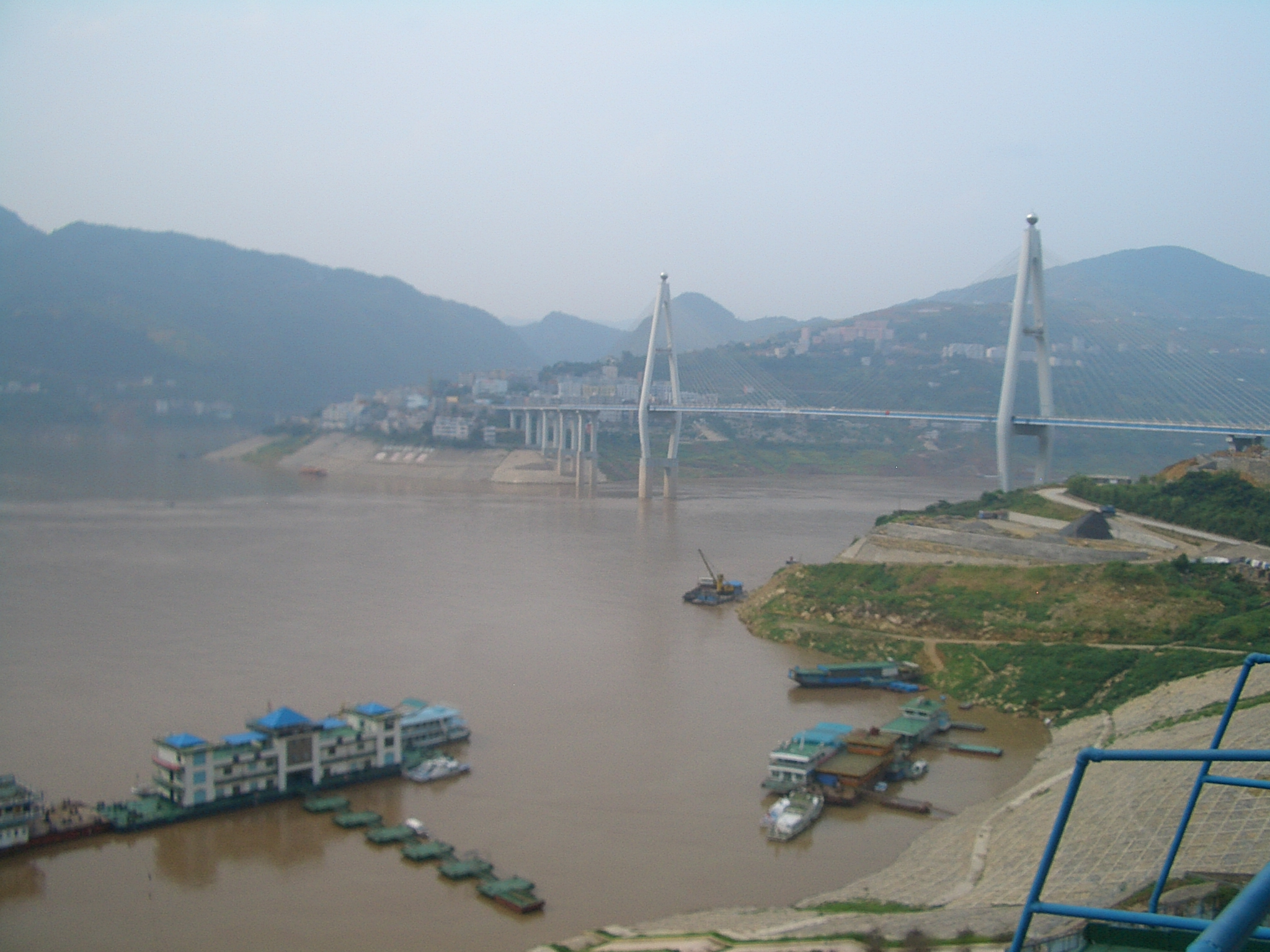 A view of the Chang Jiang and the Badong Bridge from the passenger terminal in Badong